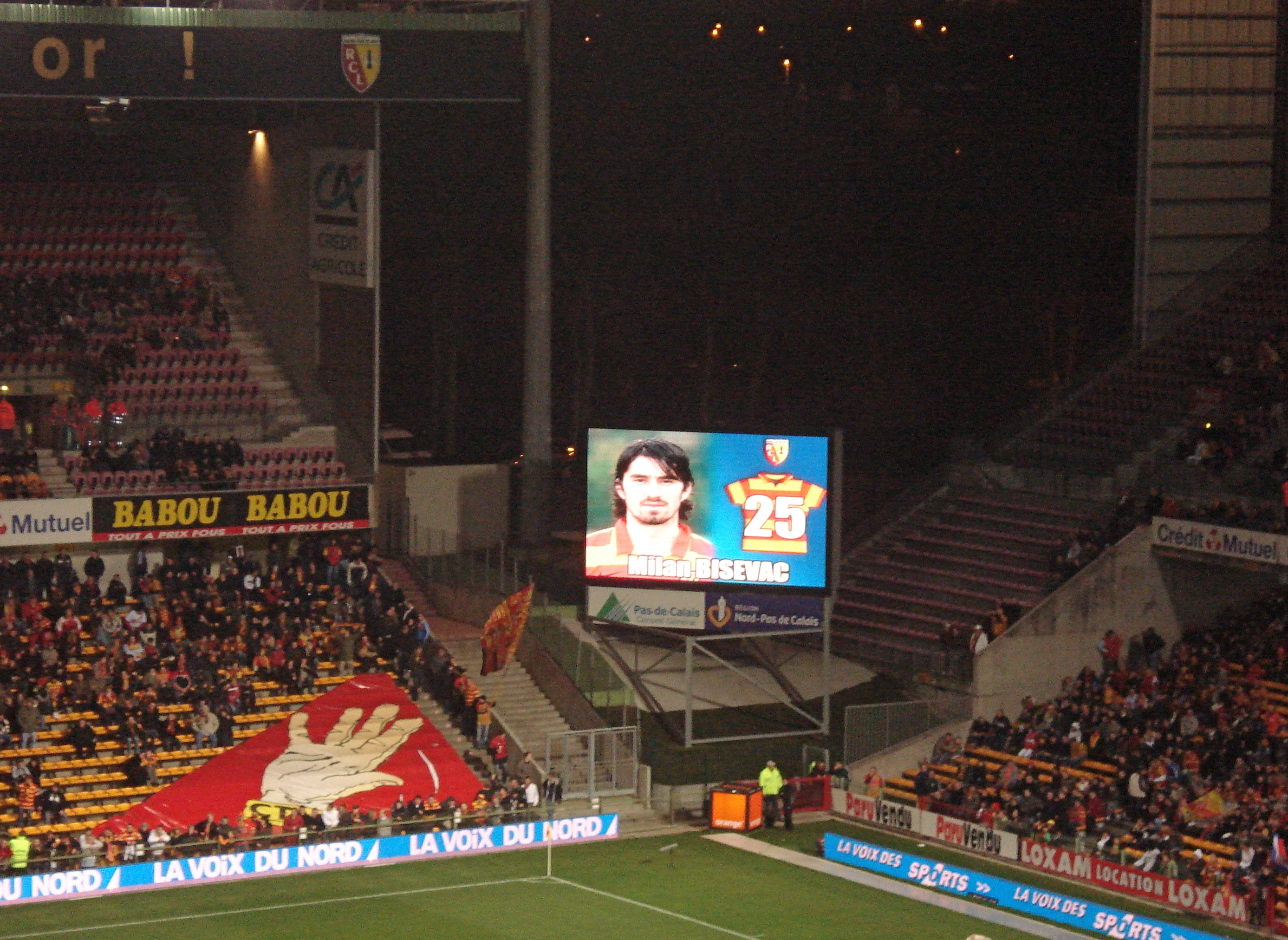 Milan Biševac (RC Lens)